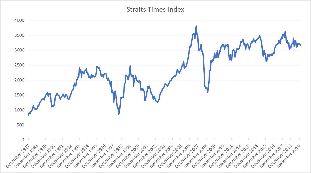 Straits Times Index from December 1987 to December 2019 (daily closings)